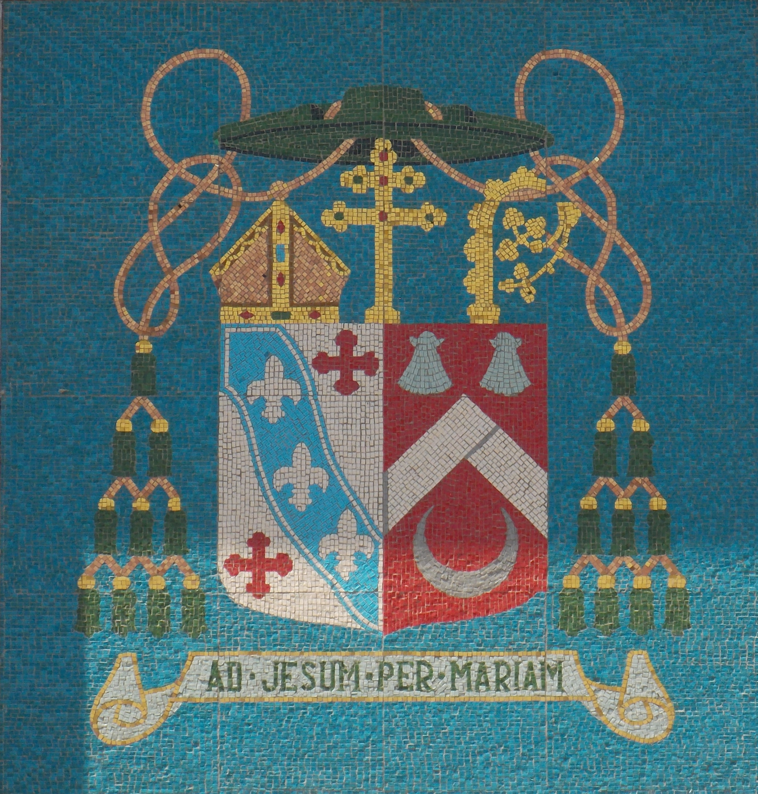 Archbishop James Byrne's coat of arms above the main entrance into St. Raphael's Cathedral in Dubuque, Iowa.